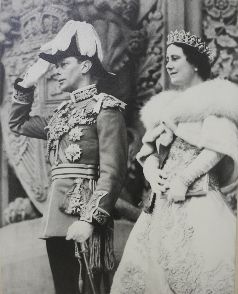 King George VI and Queen Elizabeth at the Parliament Building in Ottawa